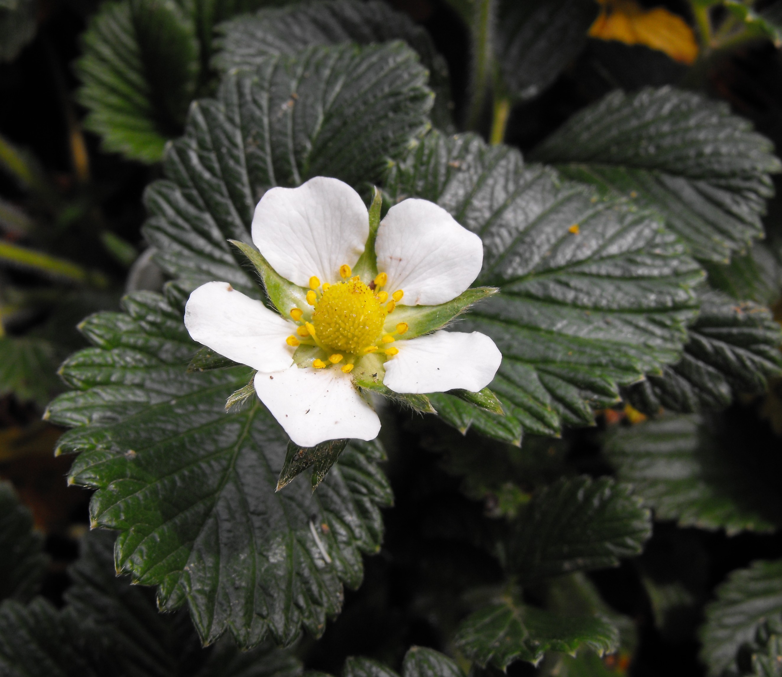 Fragaria nilgerrensis at the UC Berkeley Botanical Garden, California, USA. Identified by sign.